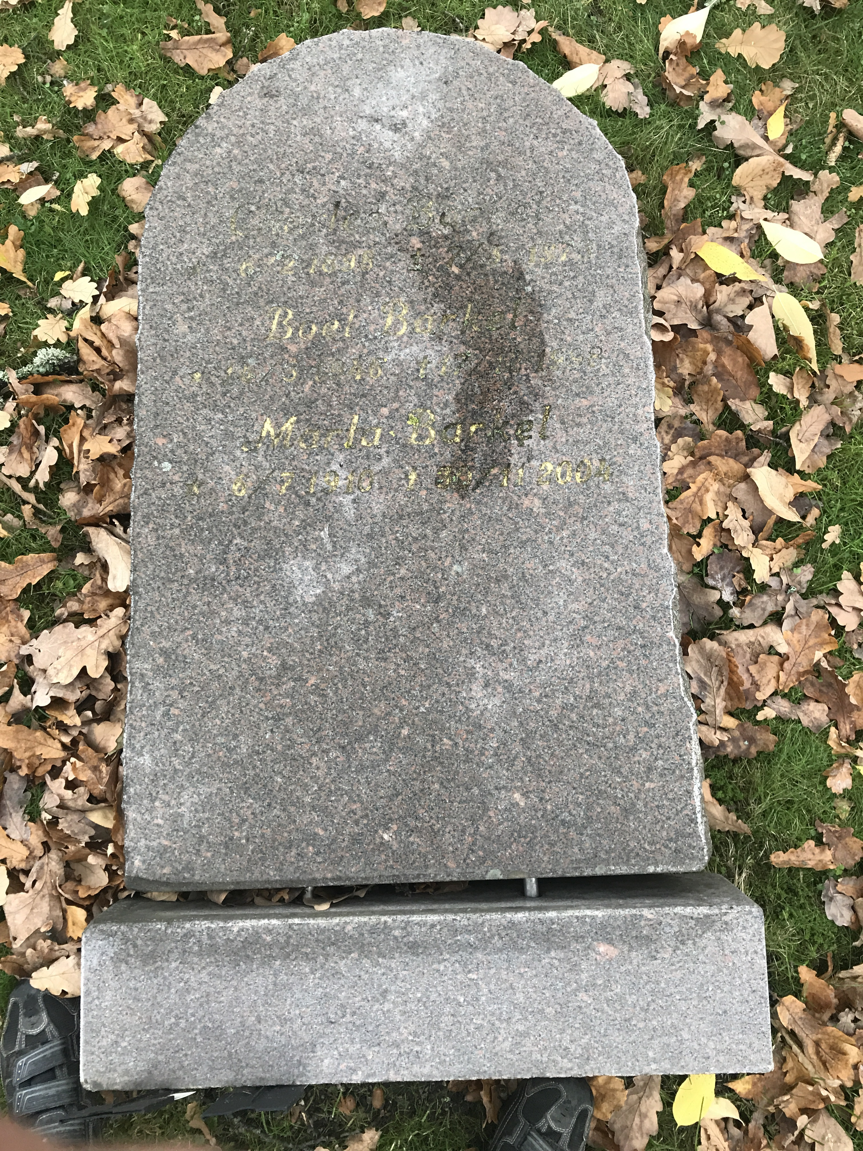 Northern Cemetery